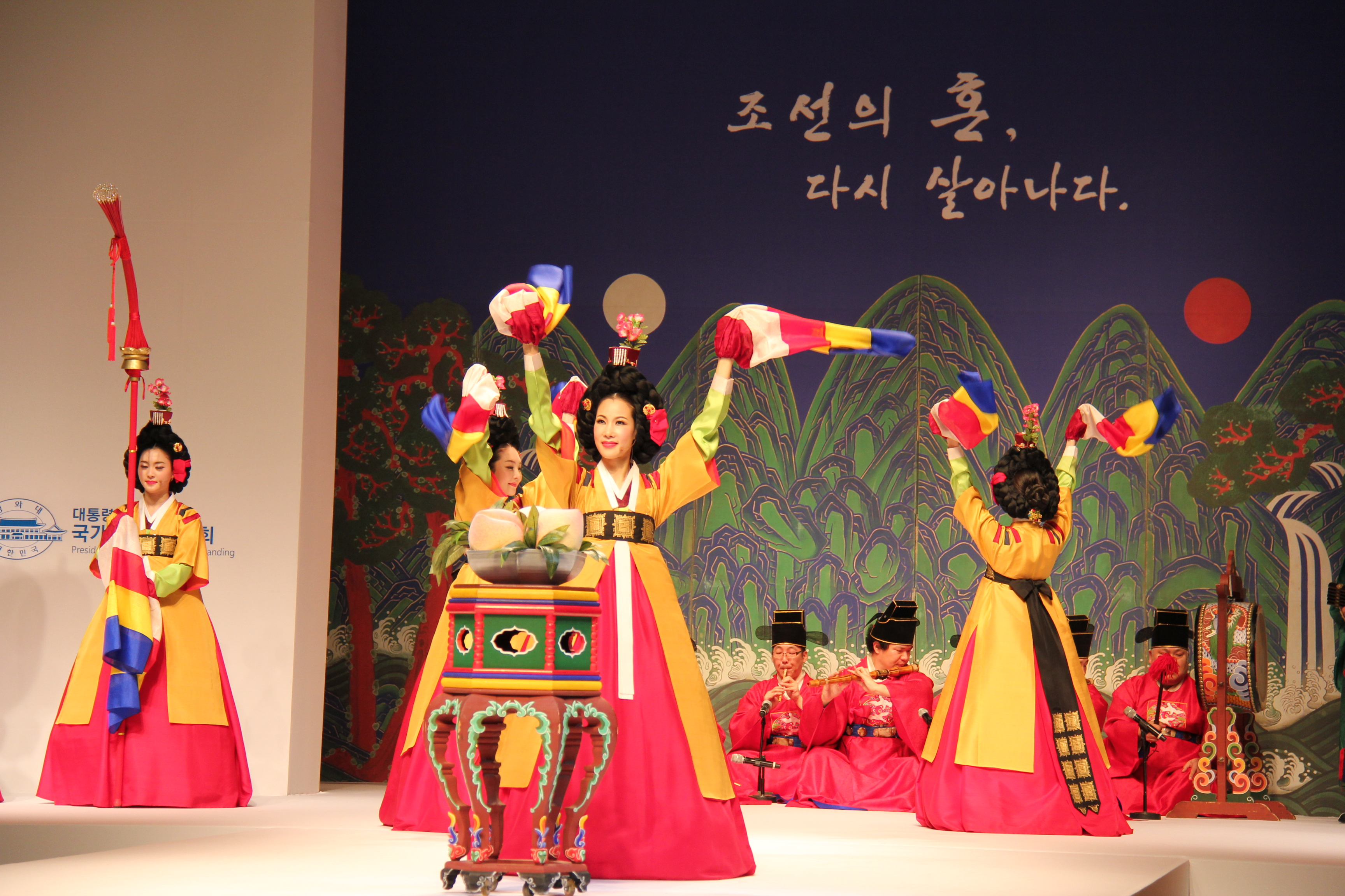 A special performance to showcase Korea's traditional music and dress is being held at the National Museum of Korea.